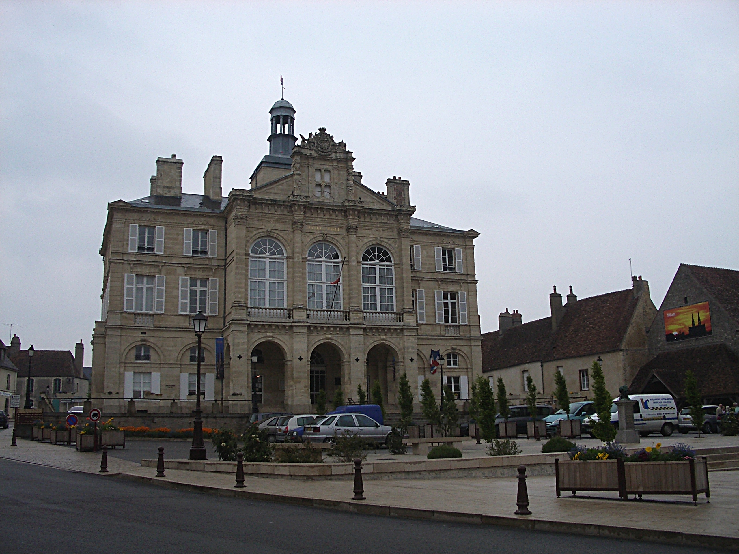 Sées (Orne) city hall